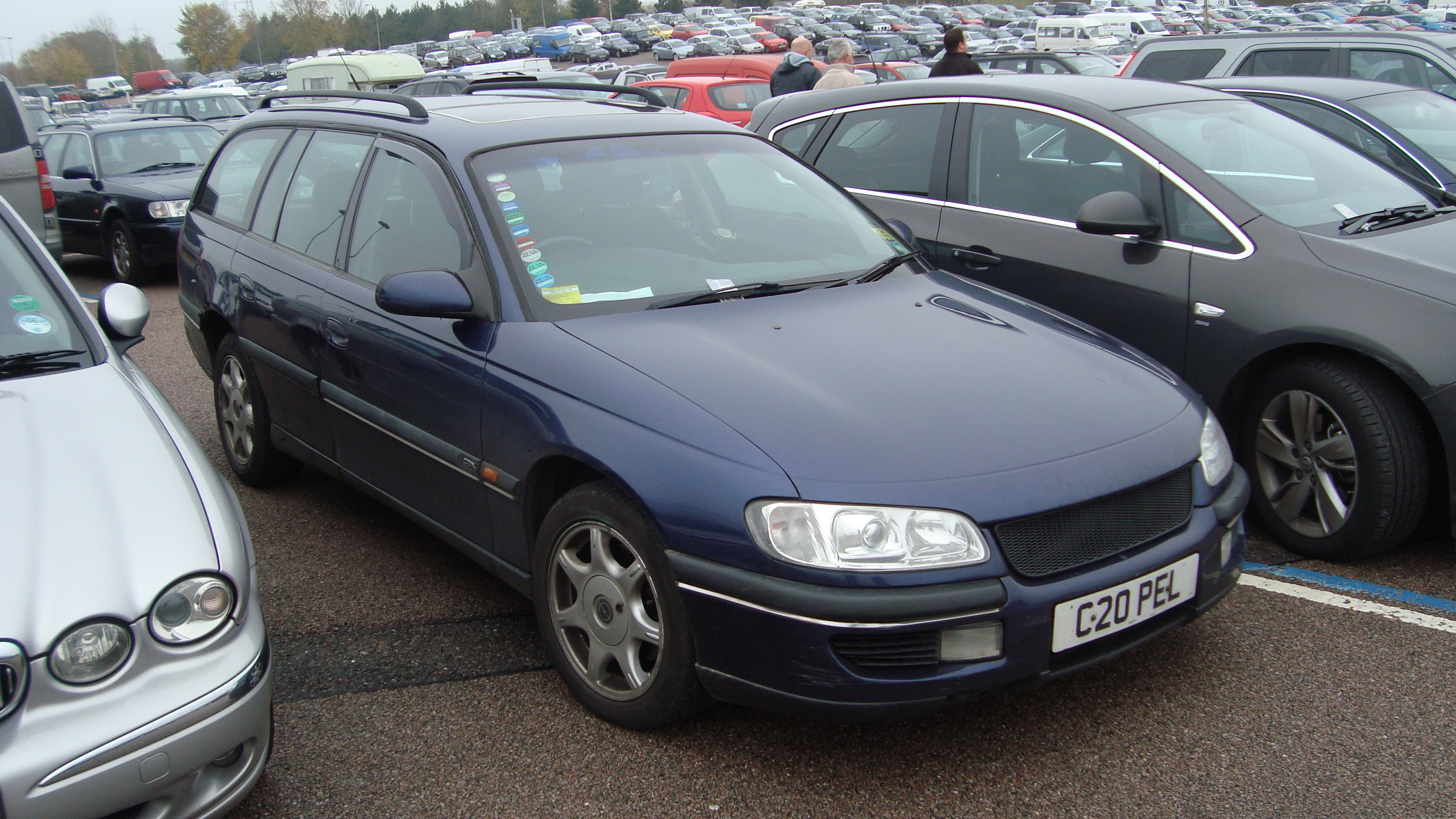 Opel badges on the tailgate and wheels (plus a numberplate which could be made into Opel) but listed on cartell as a Vauxhall, It was nice to see it either way!